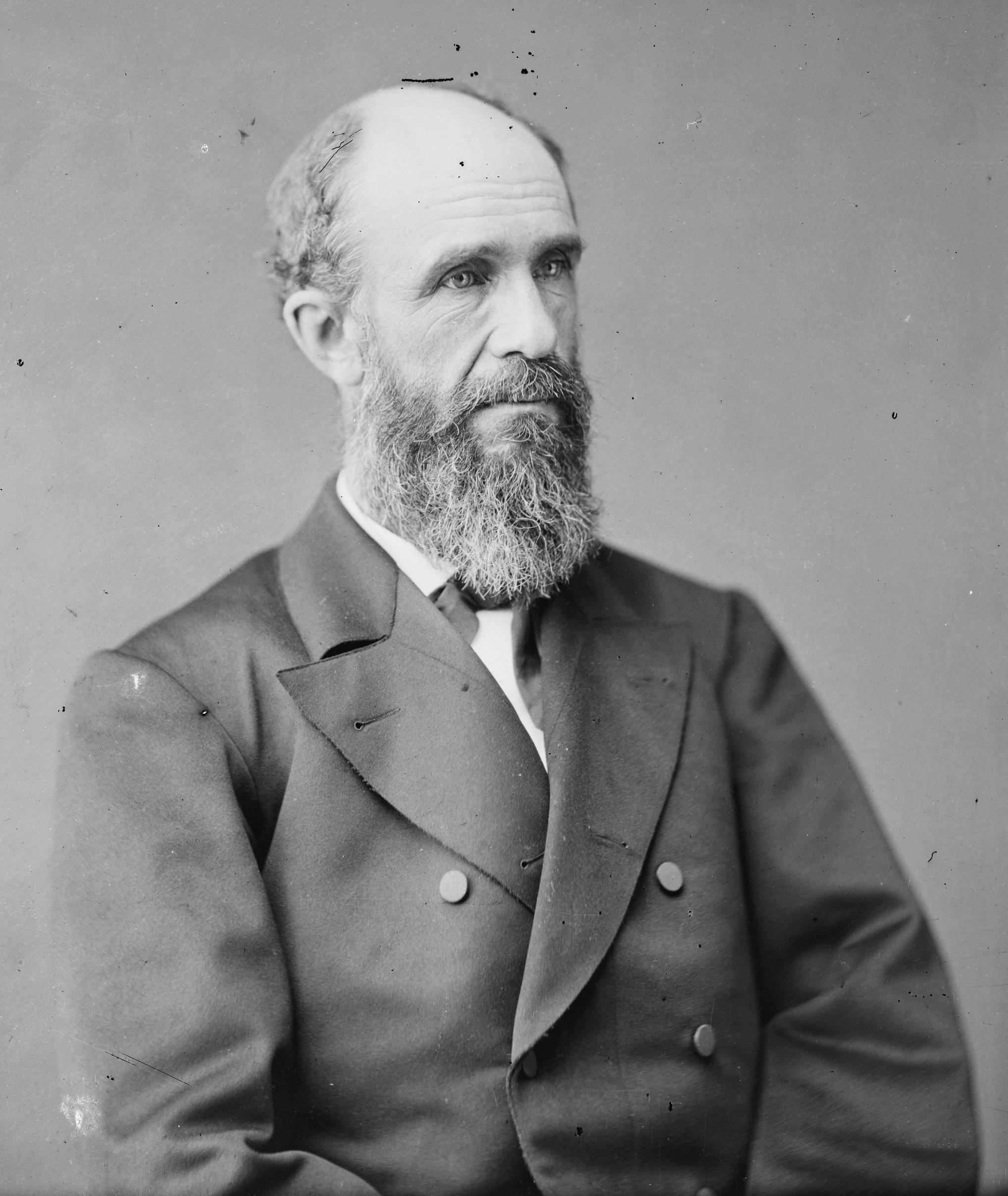 Phineas Hitchcock. Library of Congress description: "Hitchcock, Hon. Phineas Warren of Neb."